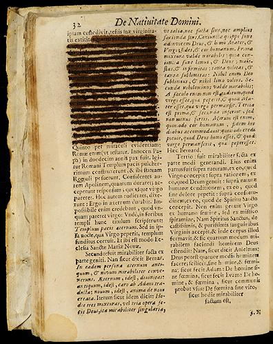 Page of Legenda aurea sanctorum by Jacobus de Voragine, Madrid: Juan Garcia, 1688. A censor has deleted the apocryphal tale of the two midwives, found nowhere in the four Gospels, which offers additional “proof” of Mary’s virginity at the Nativity. An inscription on the verso of the title page explains that the book was “corregido por el Sto. Officio segun el nuevo expurgatorio del año de 1707” (“corrected by the Holy Office according to the new Index librorum expurgatorum of 1707”) by a censor named Pablo.